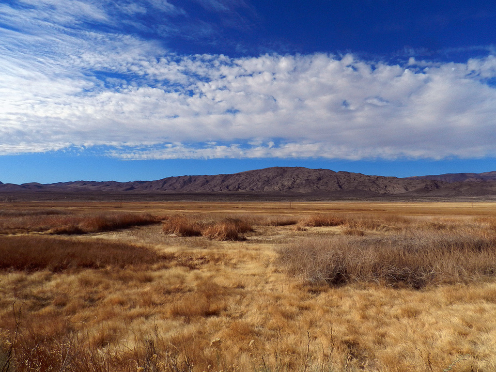 Pahranagat National Wildilfe Refuge, NV Jan. 5, 2012 Photo: Penny Meyer, Creative Commons